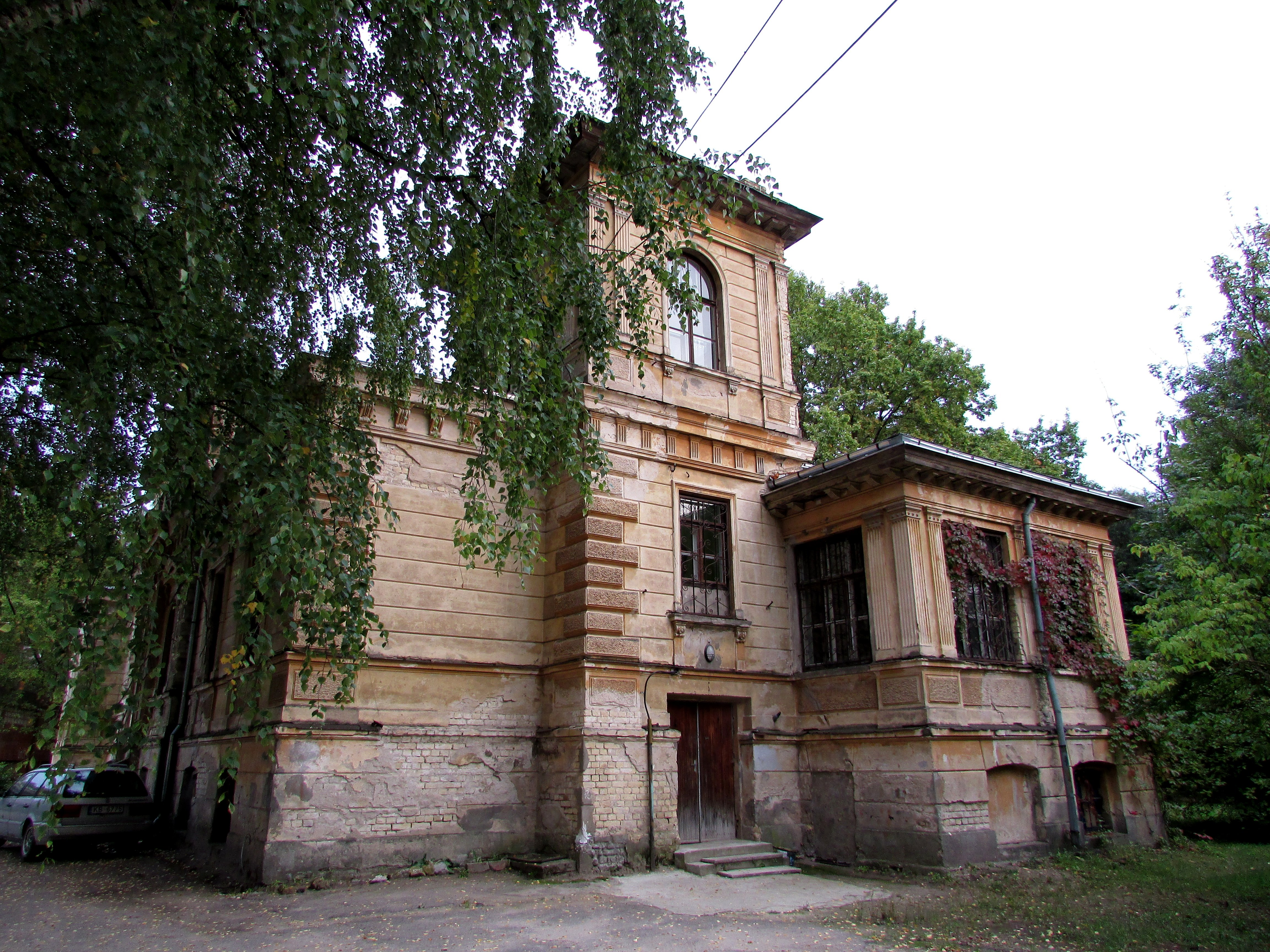 Anninmuiza manor in Riga